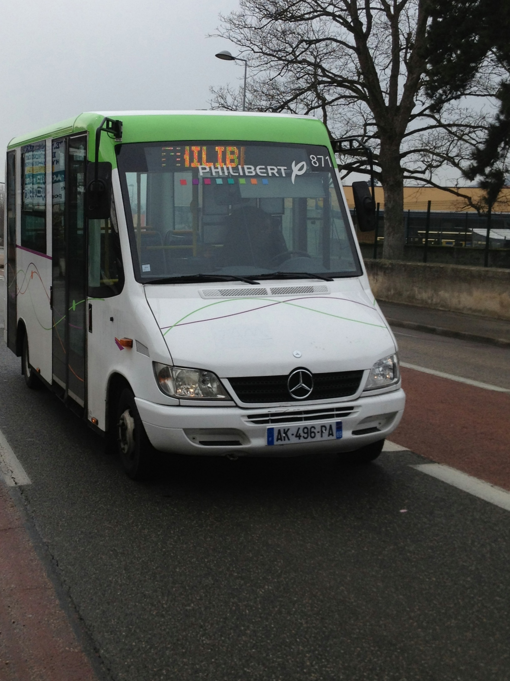 Un bus Colibri sur la ligne 1 du réseau, à Beynost.